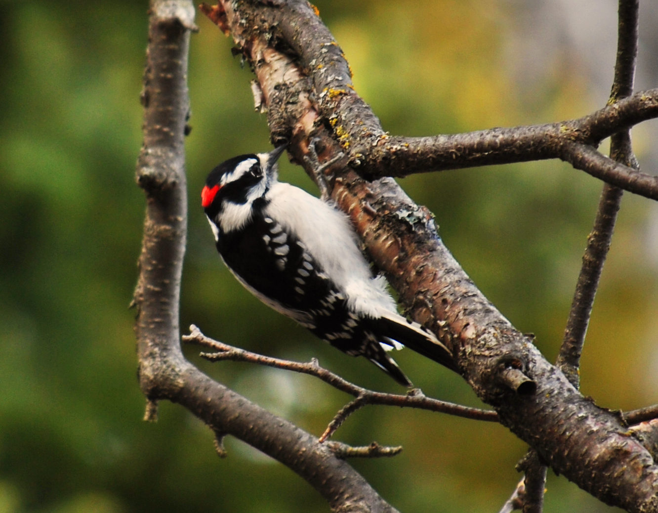 A downy woodpecker(picoides pubescens).